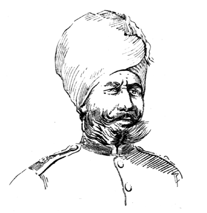 Subedar Sheikh Ali Mohammed, 9th Bhopal Infantry. Sketch by Major Alfred Crowdy Lovett, 1910. Published in MacMunn & Lovett, Armies of India, 1911.